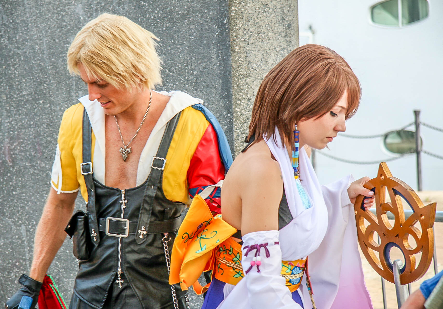 Cosplay at MCM London Comic Con in May 2016.